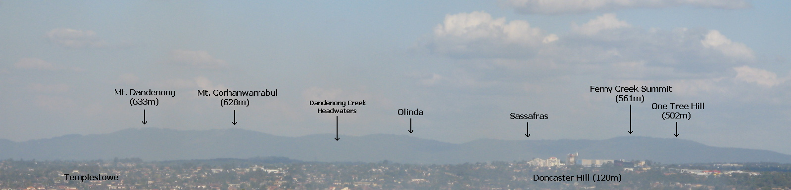 Annotated panorama of the Dandenong Ranges, based on (File:Dandenong Ranges Panorama.JPG). .